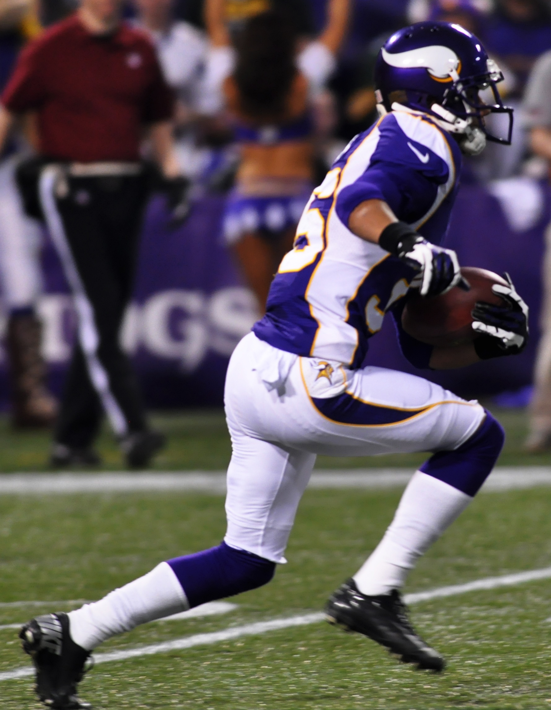 Minnesota Vikings CB/PR Marcus Sherels in a punt return.